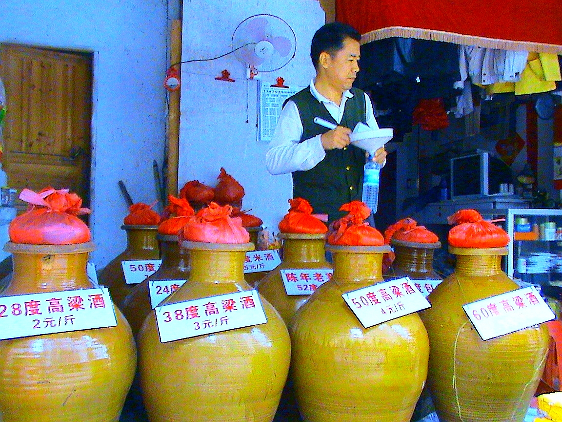 Bai jiu, or Chinese white hard alcohol that was made locally in Haikou, Hainan, China, and sold in a dedicated alcohol shop. The signs hanging on the stone bottles show alcohol percentag above (25度 to 60度: 25% to 60%), followed by the kind of alcool (here, all front jar have sorgho alocohol (高粱酒), most frequent baijiu in China, and price in yuan (2009) below.